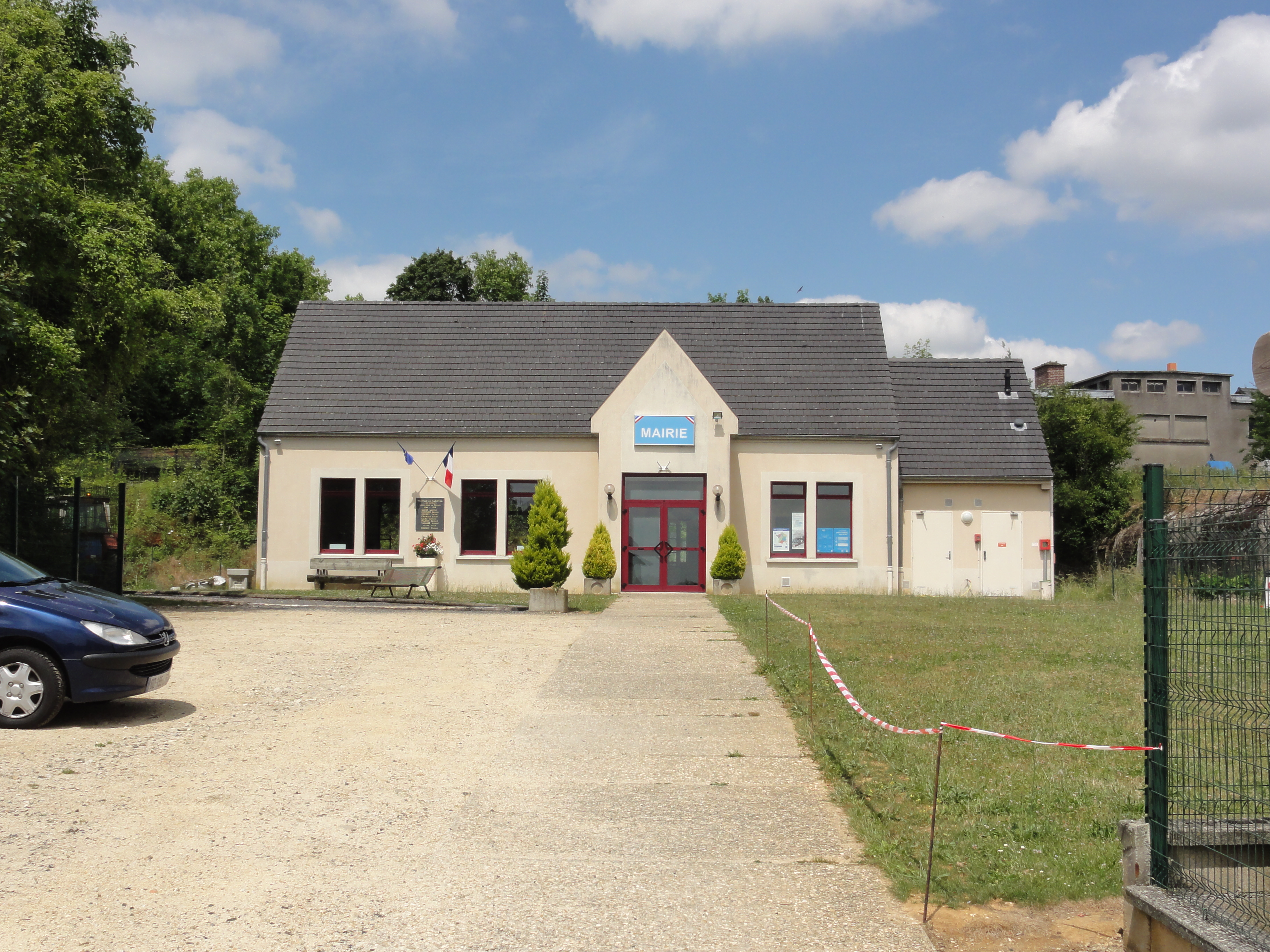 Neuville-sur-Margival (Aisne) nouvelle mairie